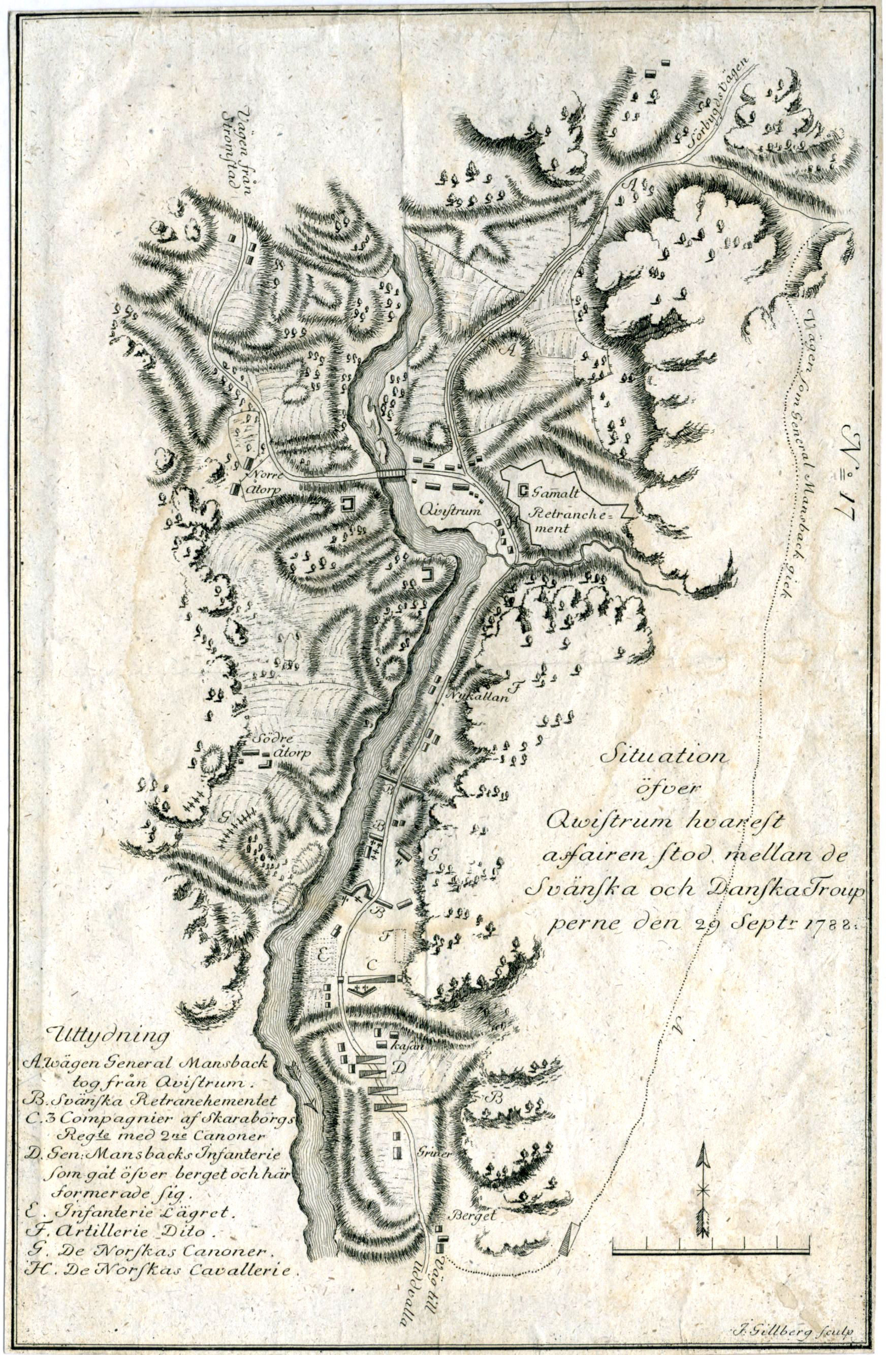 Map over the battlefield at Kvistrum, south of Munkedal in Bohuslän, Sweden. The battle was fought between Sweden and Norway-Denmark in 1788.